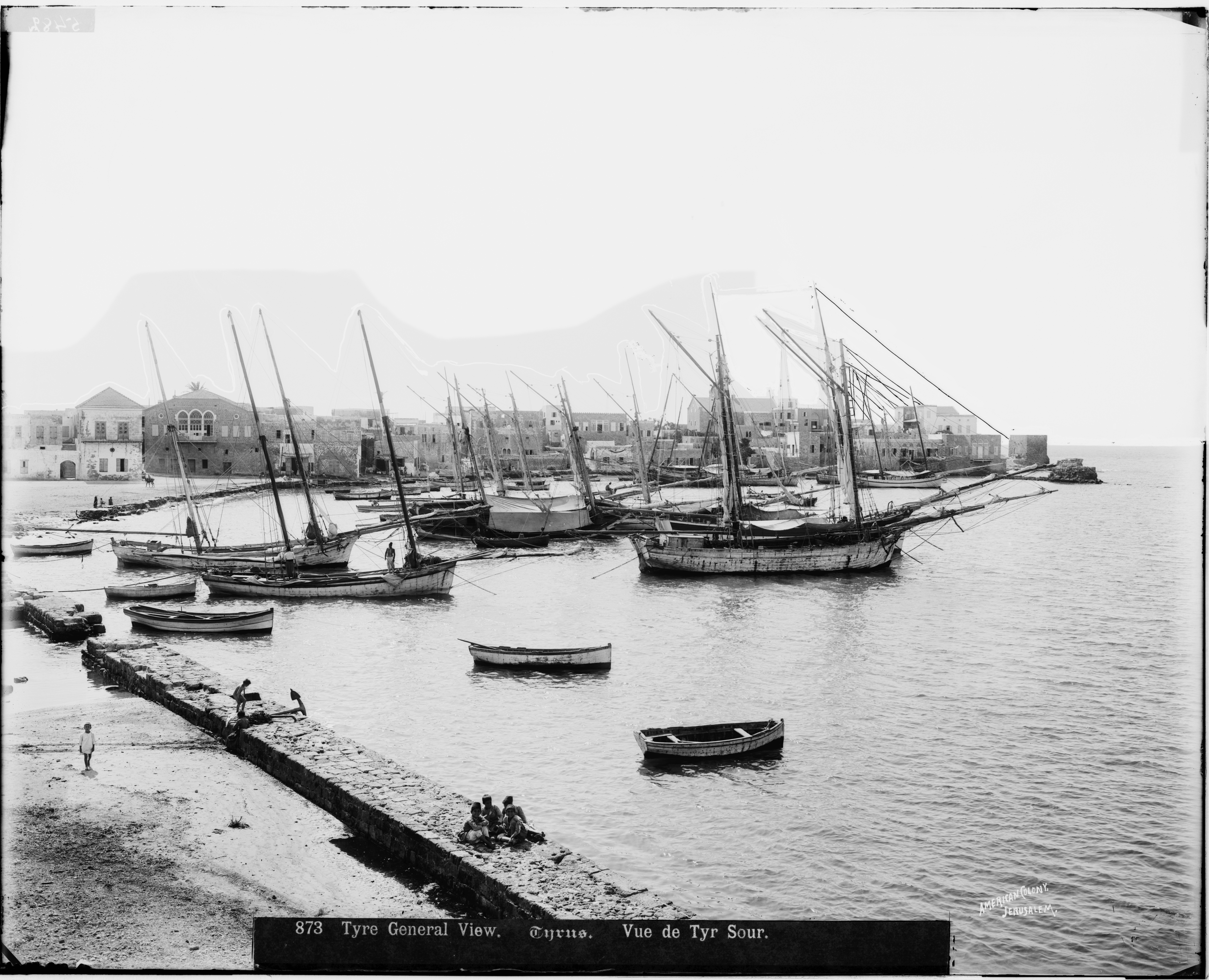 The harbour of Tyre, Southern Lebanon, between 1898 and 1914, from the G. Eric and Edith Matson Photograph Collection at the US Library of Congress